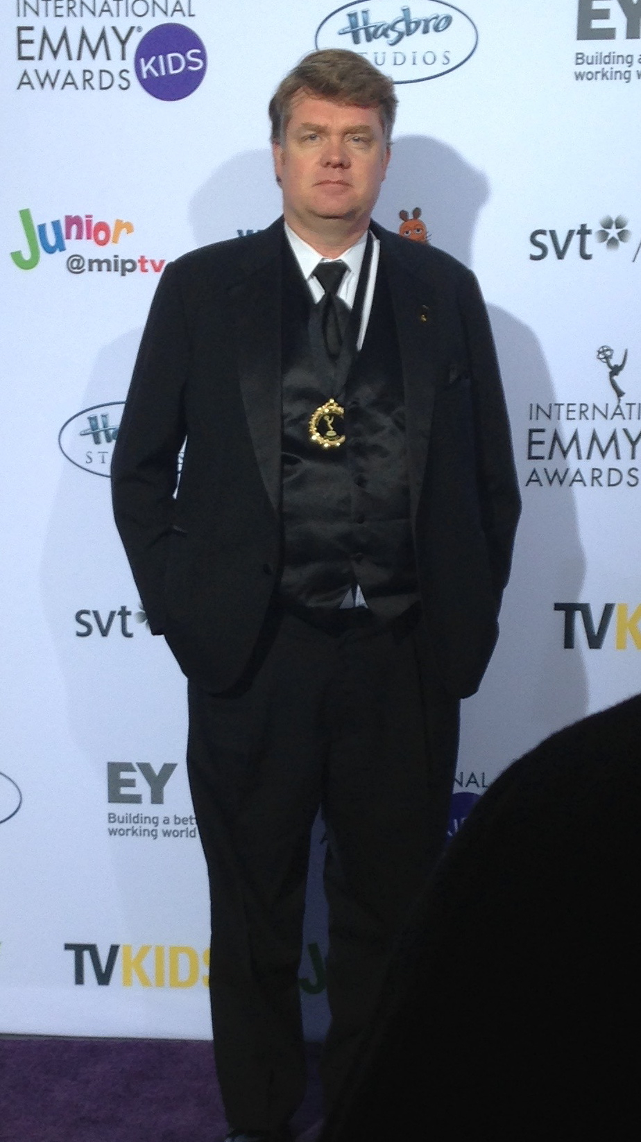 Richard Boddington at the iEmmys, New York, New York, Feb 20, 2015.